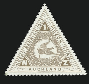 Pigeon-gram stamp from early pigeon-post service between Auckland and Great Barrier Island, New Zealand.